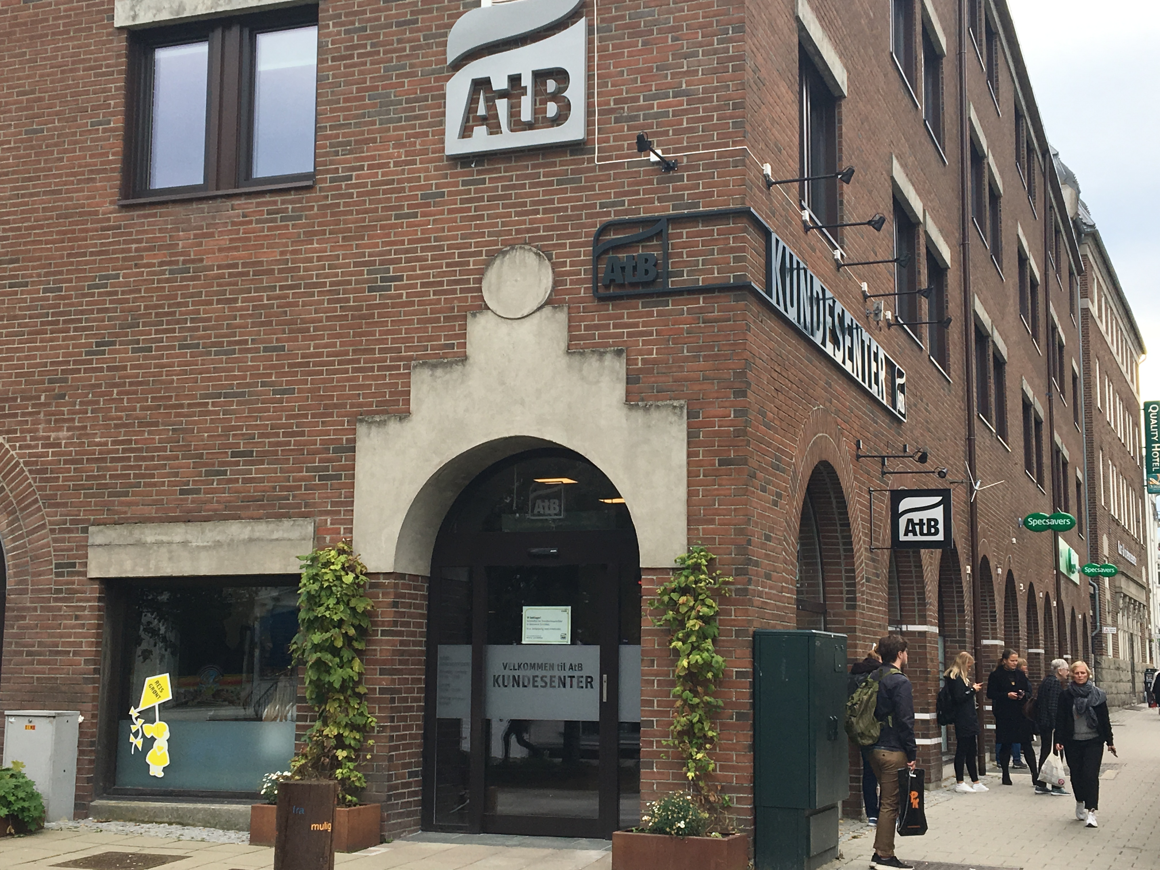 AtB Customer Service facility located in Prinsens Gate